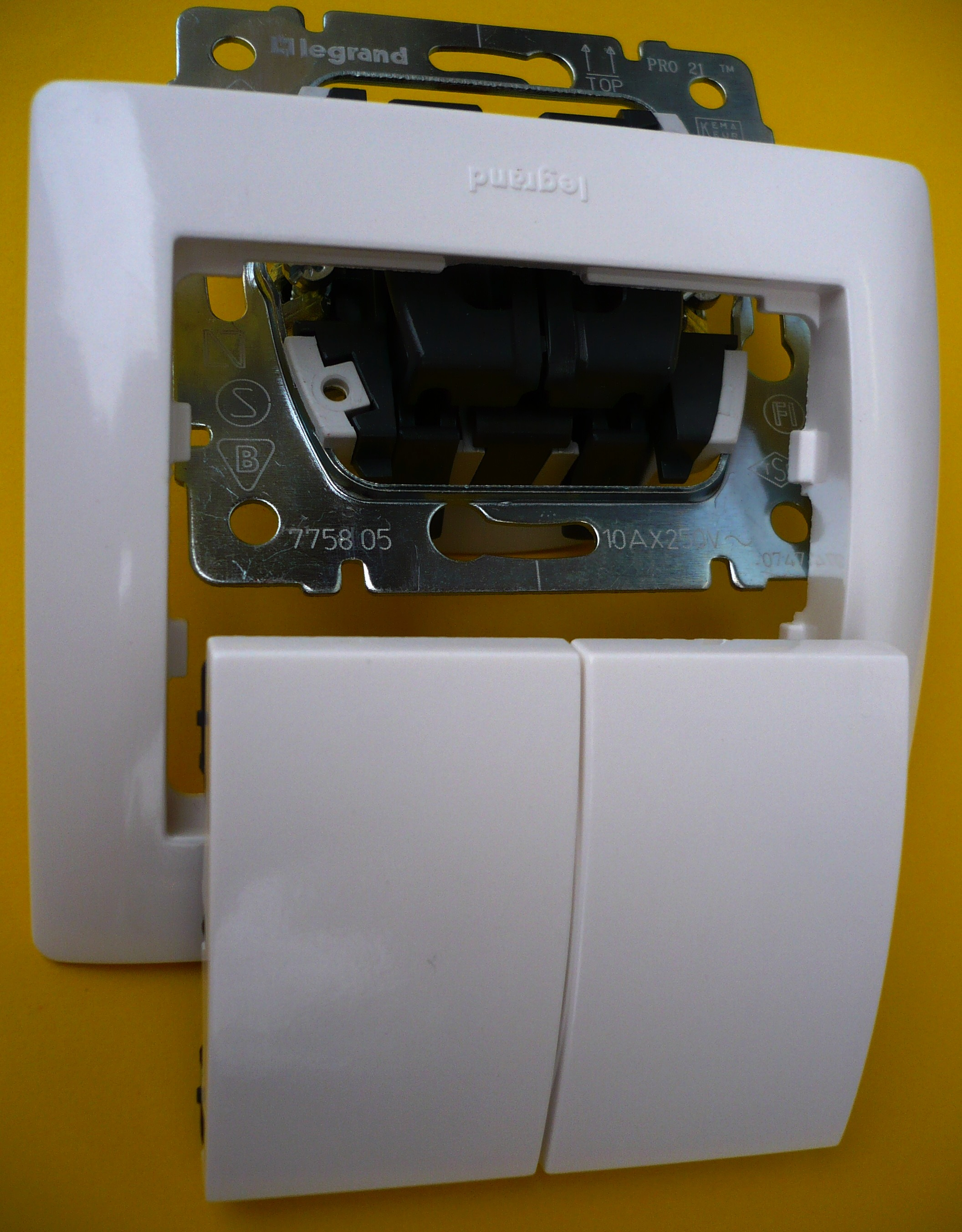 Light switch LEGRAND GALEA details